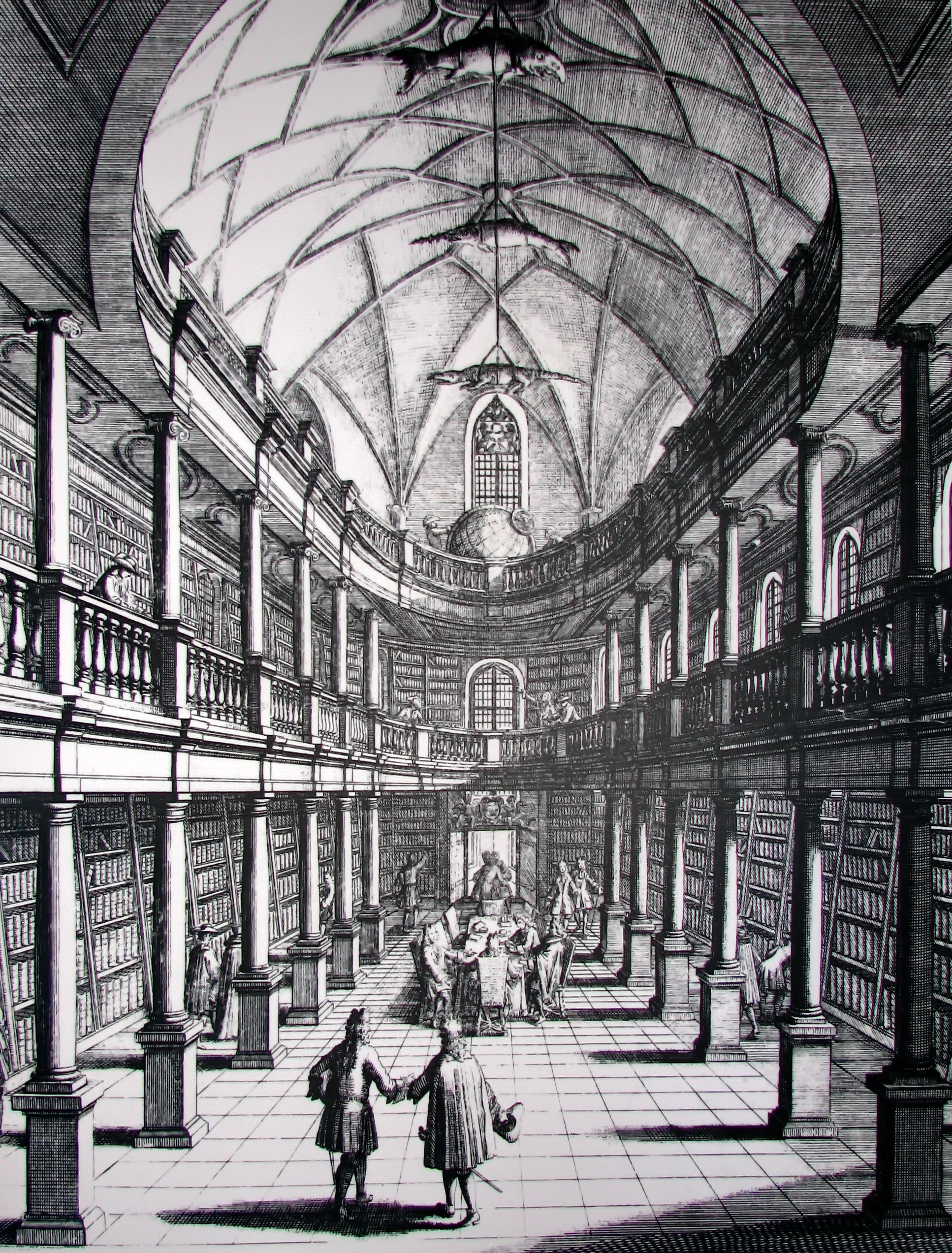 Zürich, Wasserkirche : Former 'Bürgerbibliothek' (public library), as of 1719.